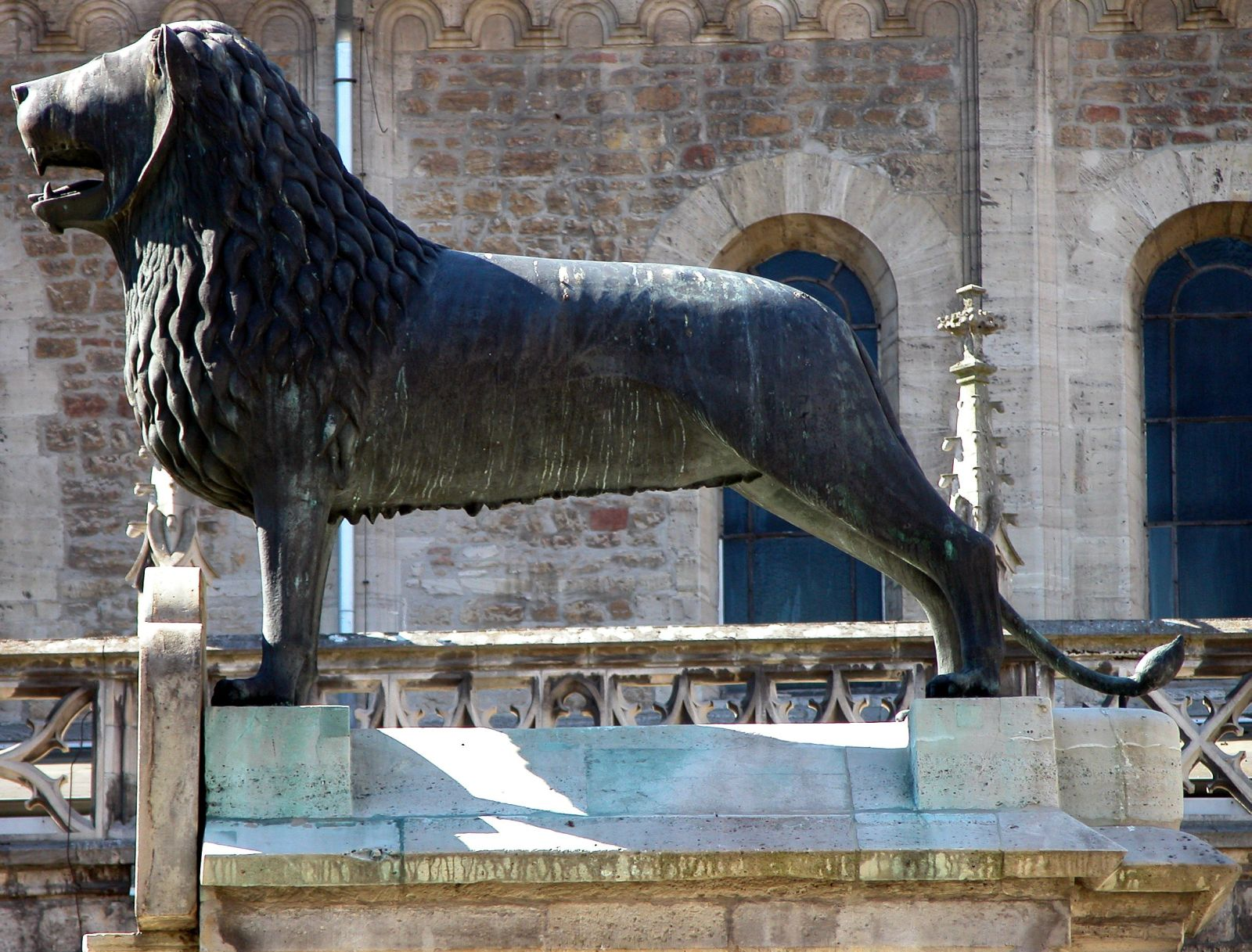 Brunswick, Germany: Copy of the Brunswick Lion (in front of Brunswick Cathedral)